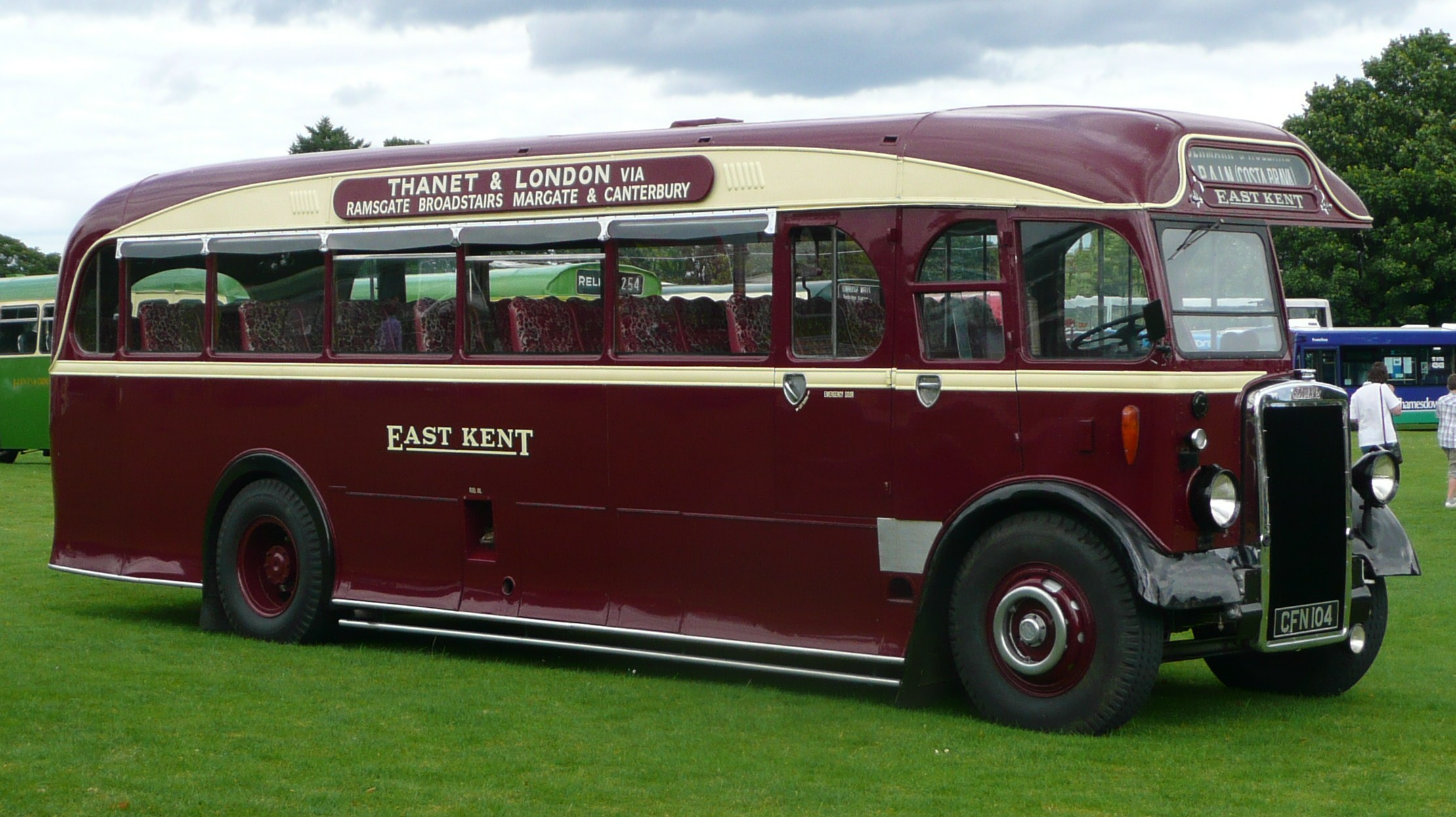 Preserved East Kent Road Car Company CFN 104, a Leyland Tiger PS1/Park Royal at the 2008 Alton Bus Rally.